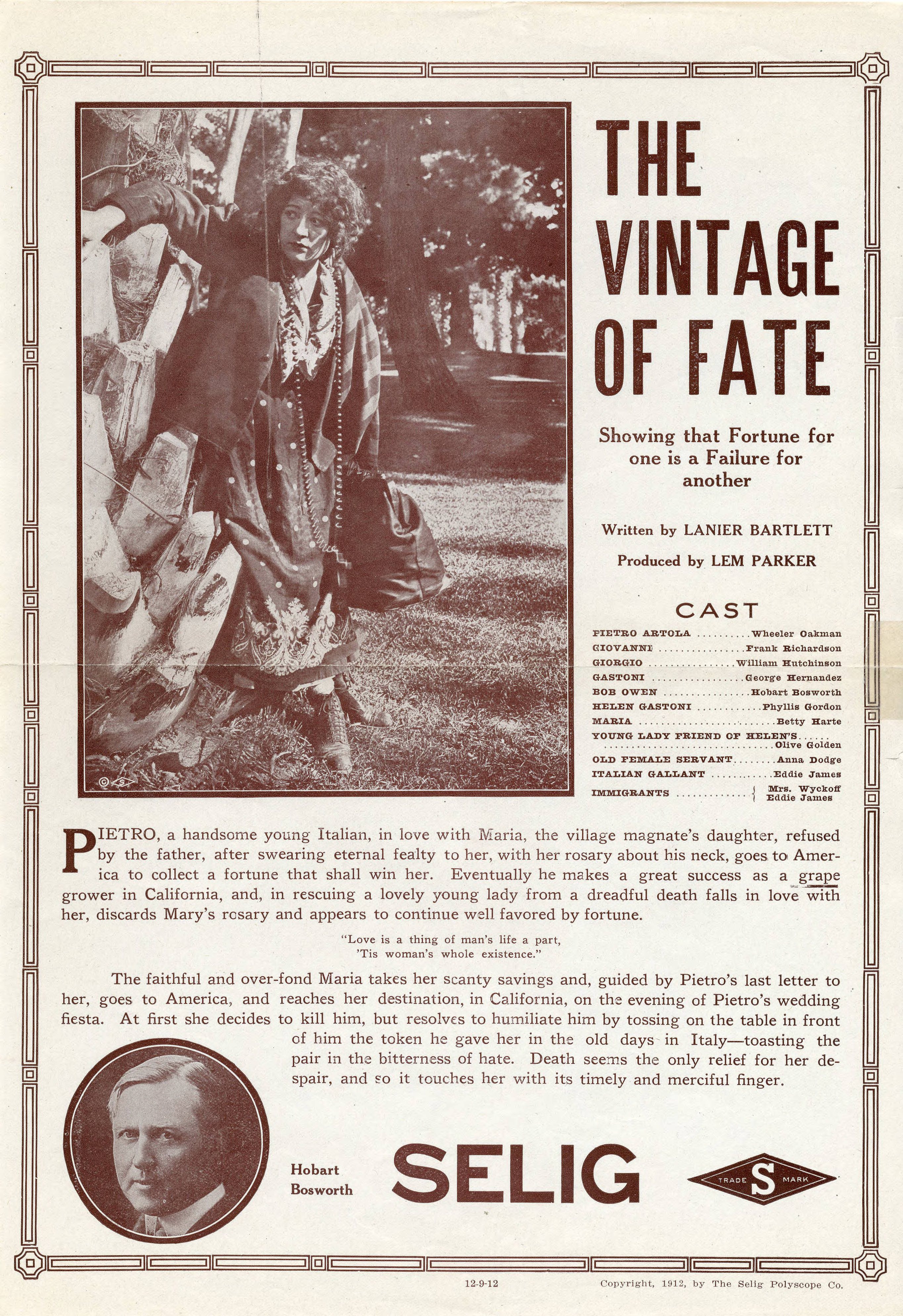 Release flier for THE VINTAGE OF FATE, 1912